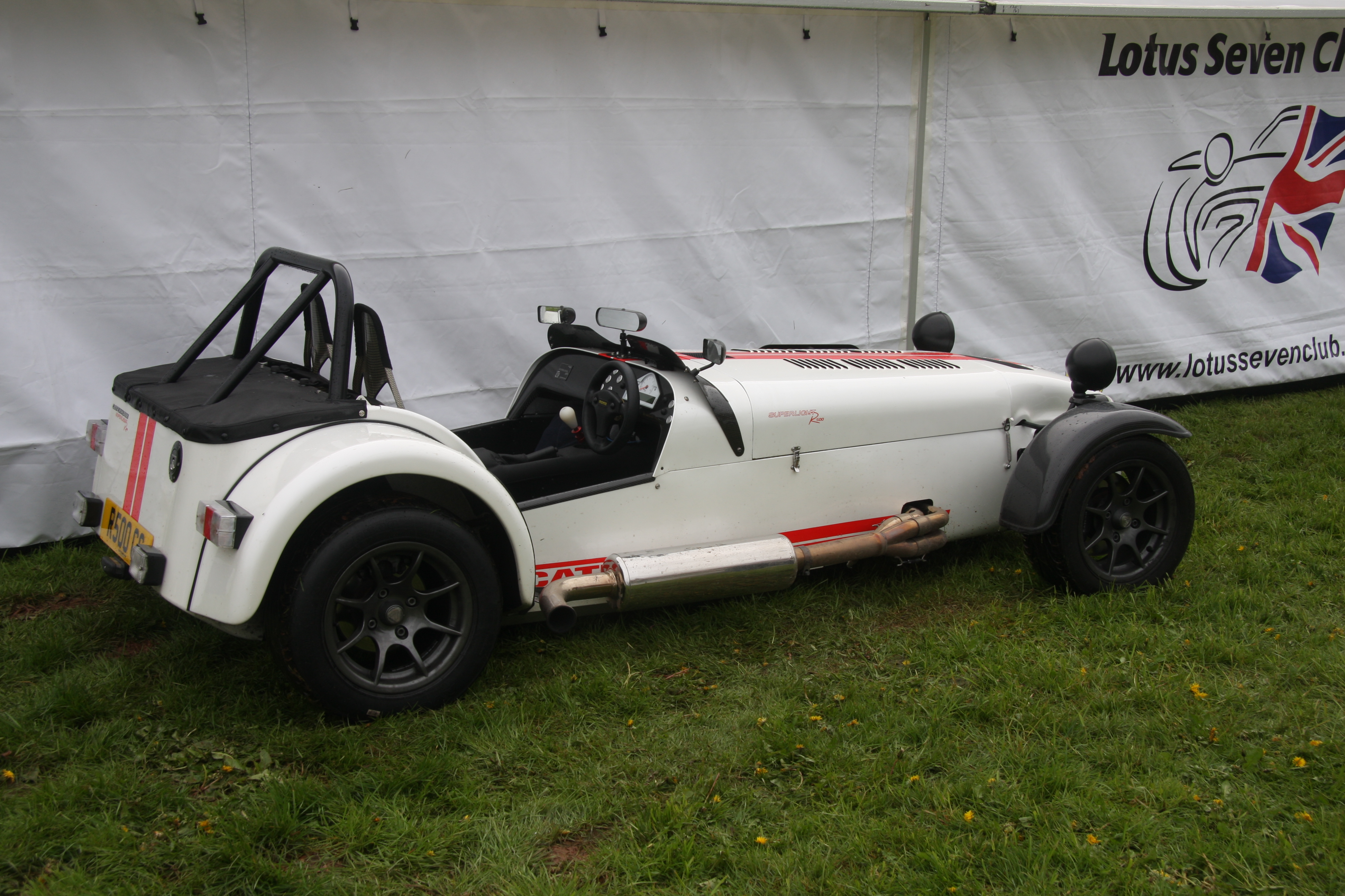 Lent by Caterham to the Owners' Club for the Stoneleigh Show